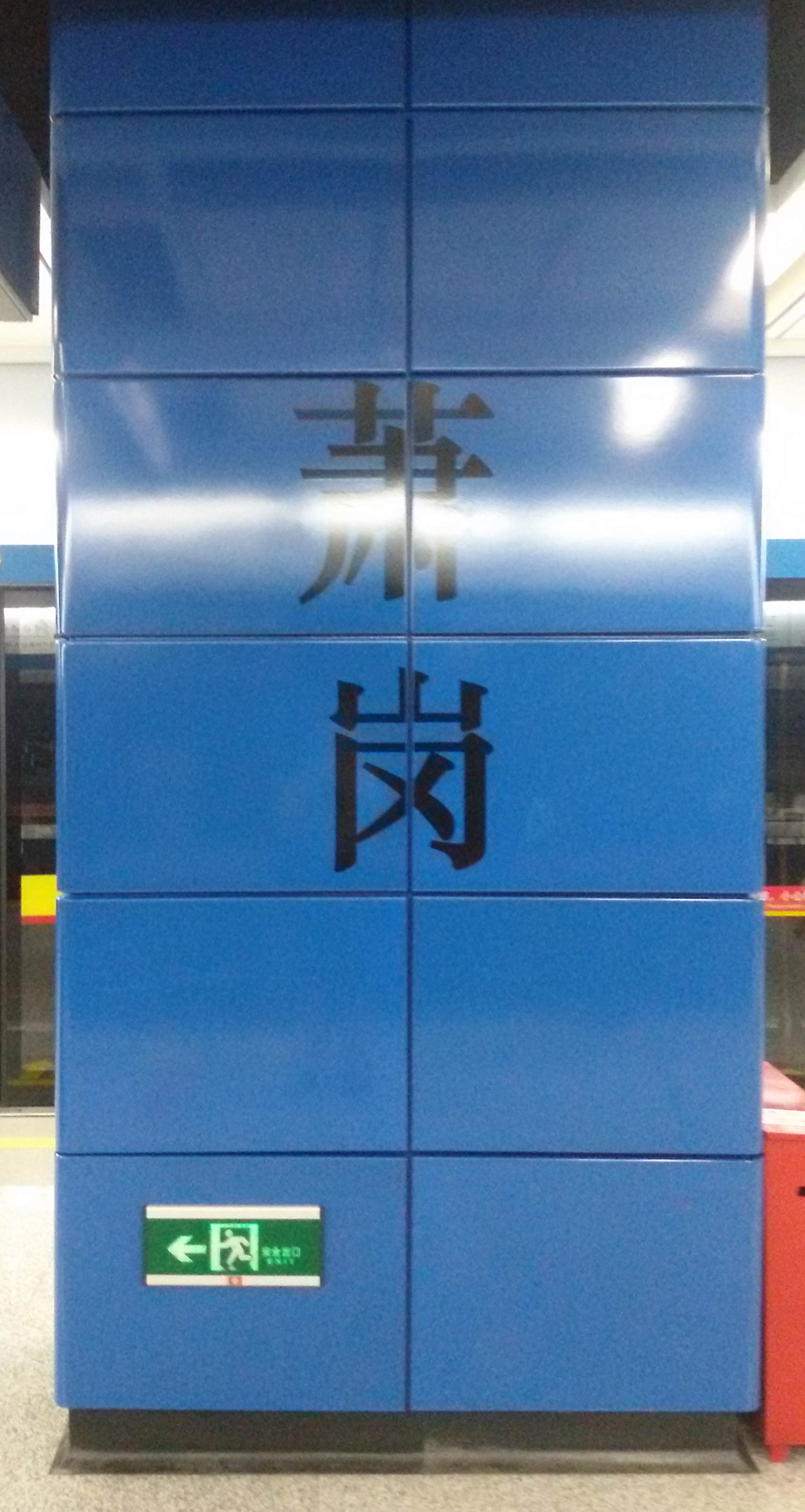 WORD on PILLAR for Xiao-gang Station in Guangzhou Metro 粵語: 廣州地鐵，蕭崗站嘅柱上啲字。